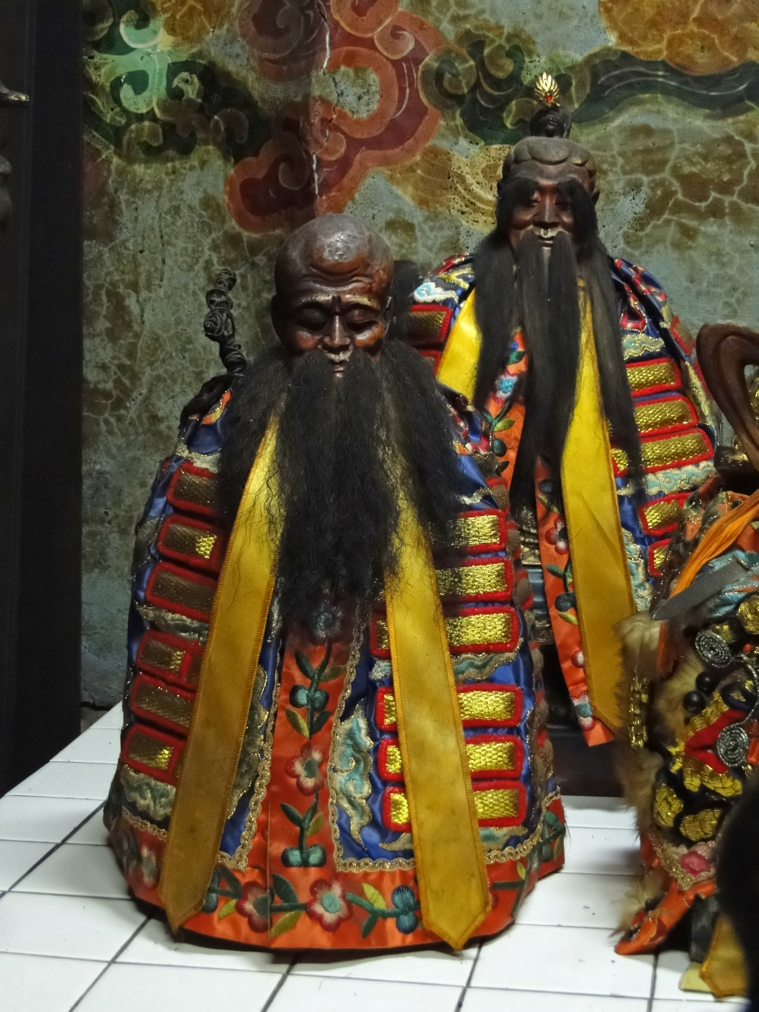 Statues of Taoist deities inside a temple in Shuangxi District, Taiwan